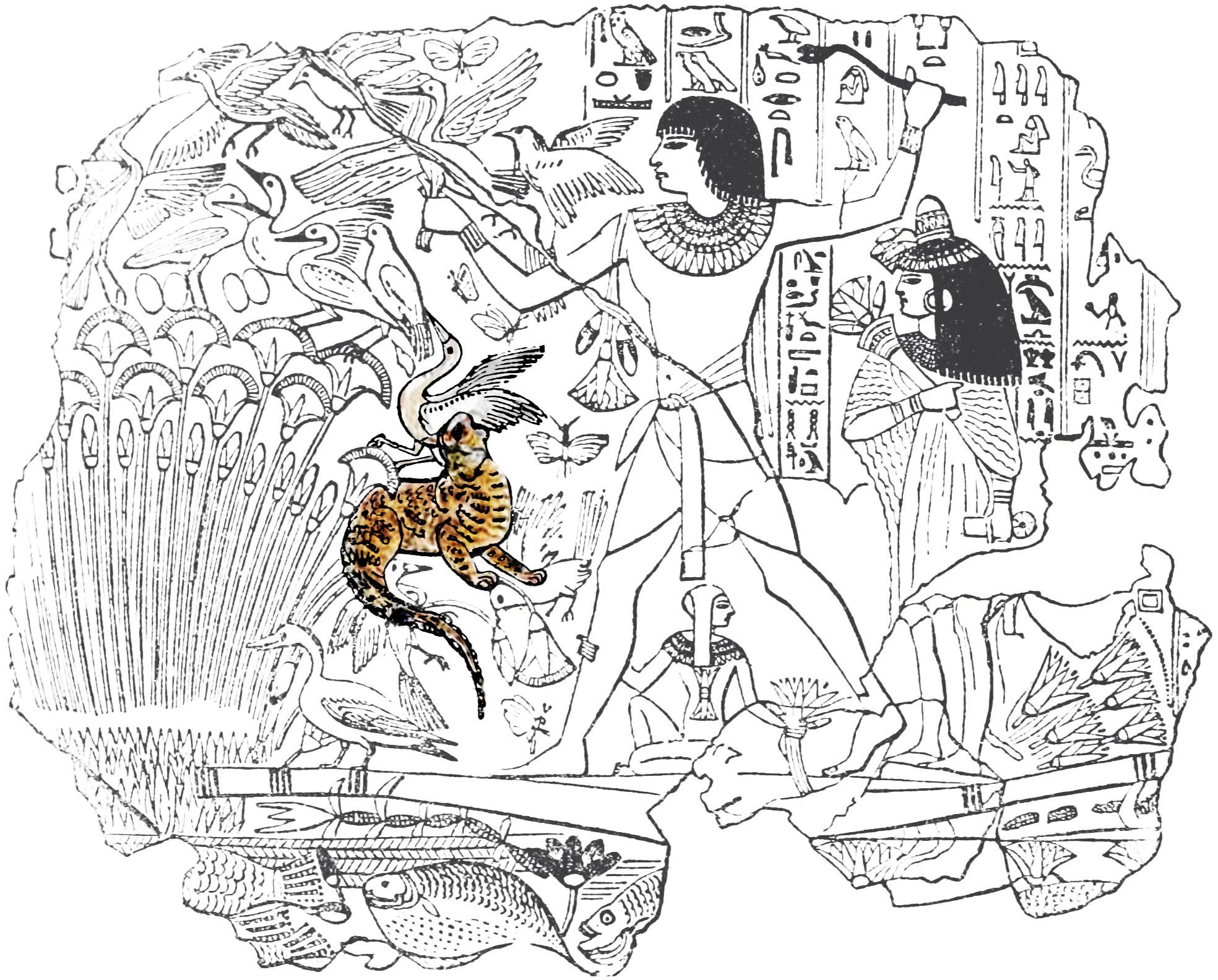 An Egyptian fowling scene using cats for hunting